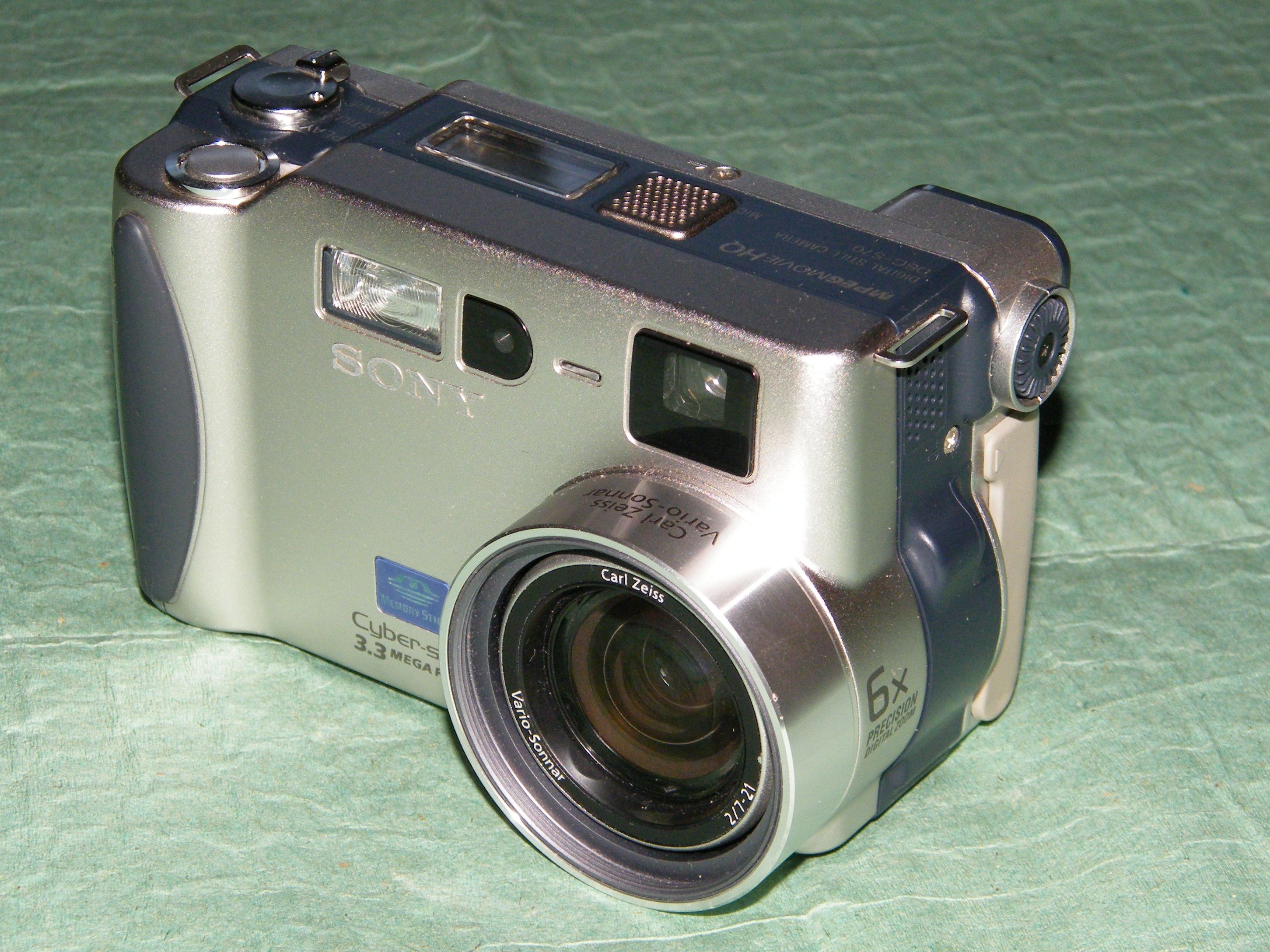 Sony Cyber-shot DSC-S70